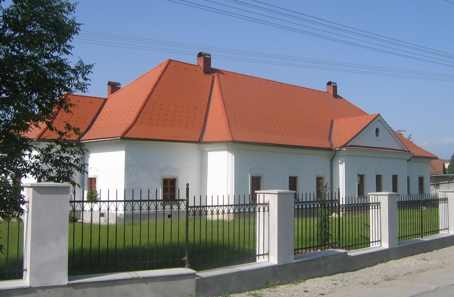 Žilina - Bánová, Manor house, square J.Bosca